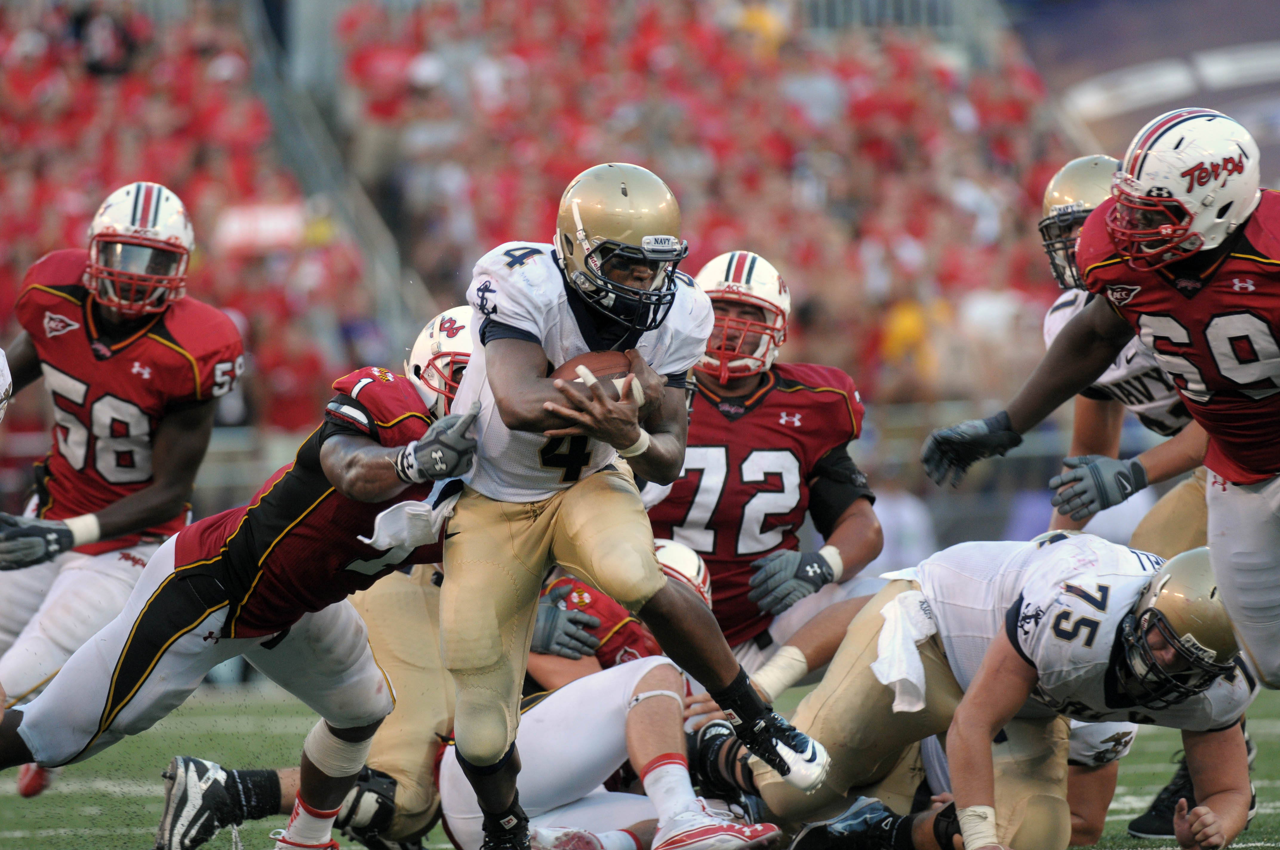 BALTIMORE (Sept. 6, 2010) U.S. Naval Academy quarterback Ricky Dobbs (#4) rushes for a first down against the University of Maryland. The Midshipmen lost the season opener to the University of Maryland Terrapins 17 to 14. (U.S. Navy photo by Mass Communication Specialist 2nd Class Jason Graham/Released)